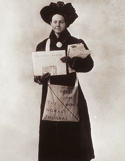 Suffrage activist and architect Florence Luscomb selling The Woman's Journal. MC394-32-2. Papers of Florence Luscomb, Schlesinger Library, Radcliffe Institute, Harvard University.